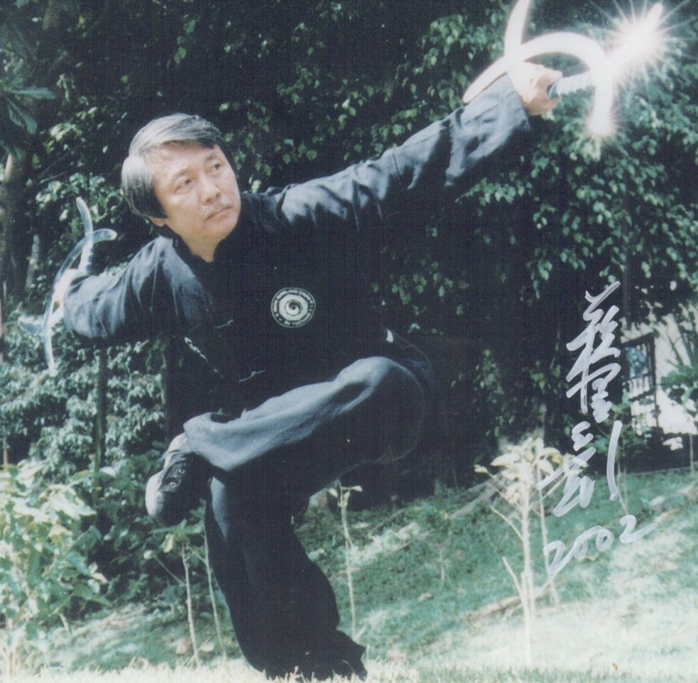 Performance of Bagua Yue (deer horn knoves) by Taiwanese master Su Yu-chang. Picture taken in Venezuela, near Mérida. Printout signed by Master Su in 2002.